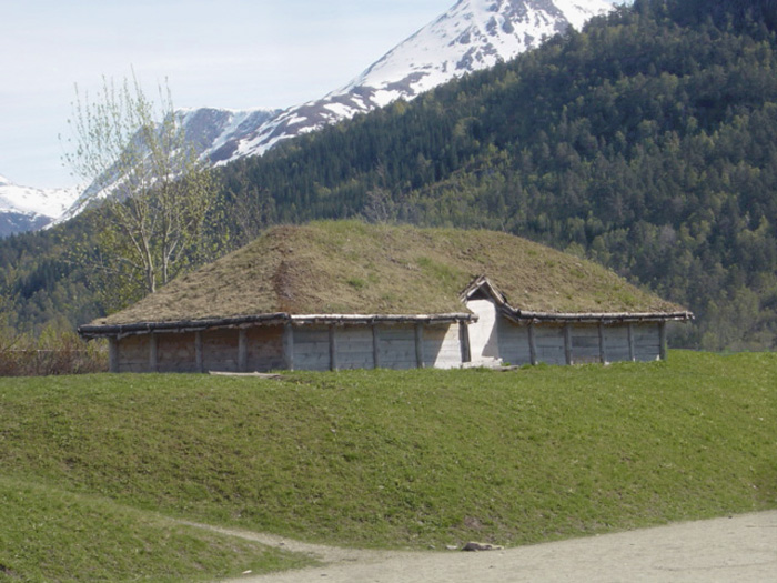 Rauma and the «copy of the vikinghouse» in Isfjorden